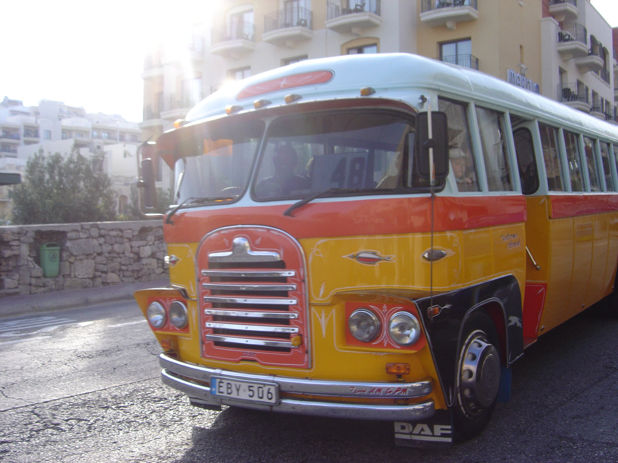 Malta does not only have a good bus communication, but the busses themself are tourist attractions with their paintwork from the sixties and nineties.